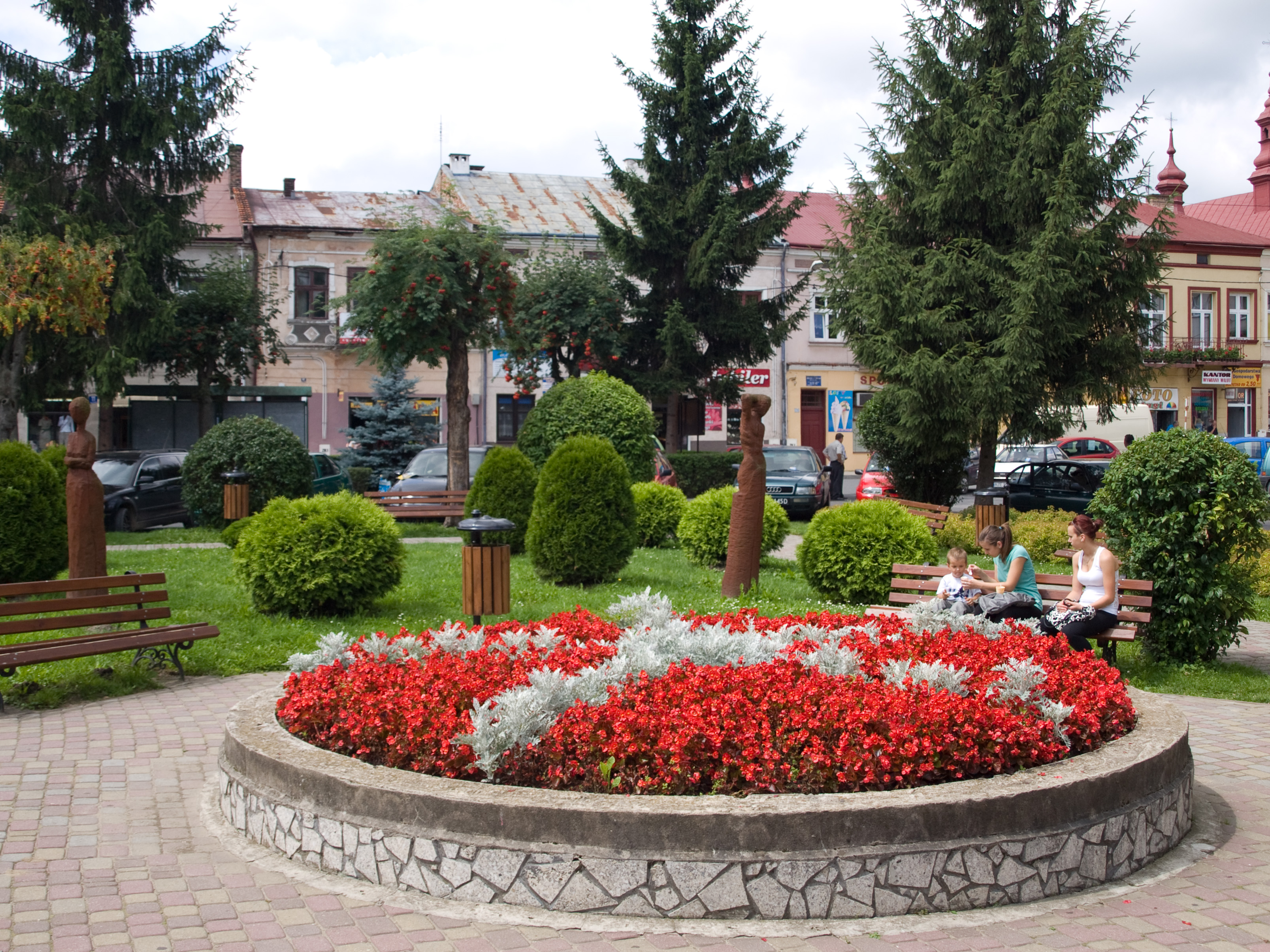 Dynów, Subcarpathian Voivodeship